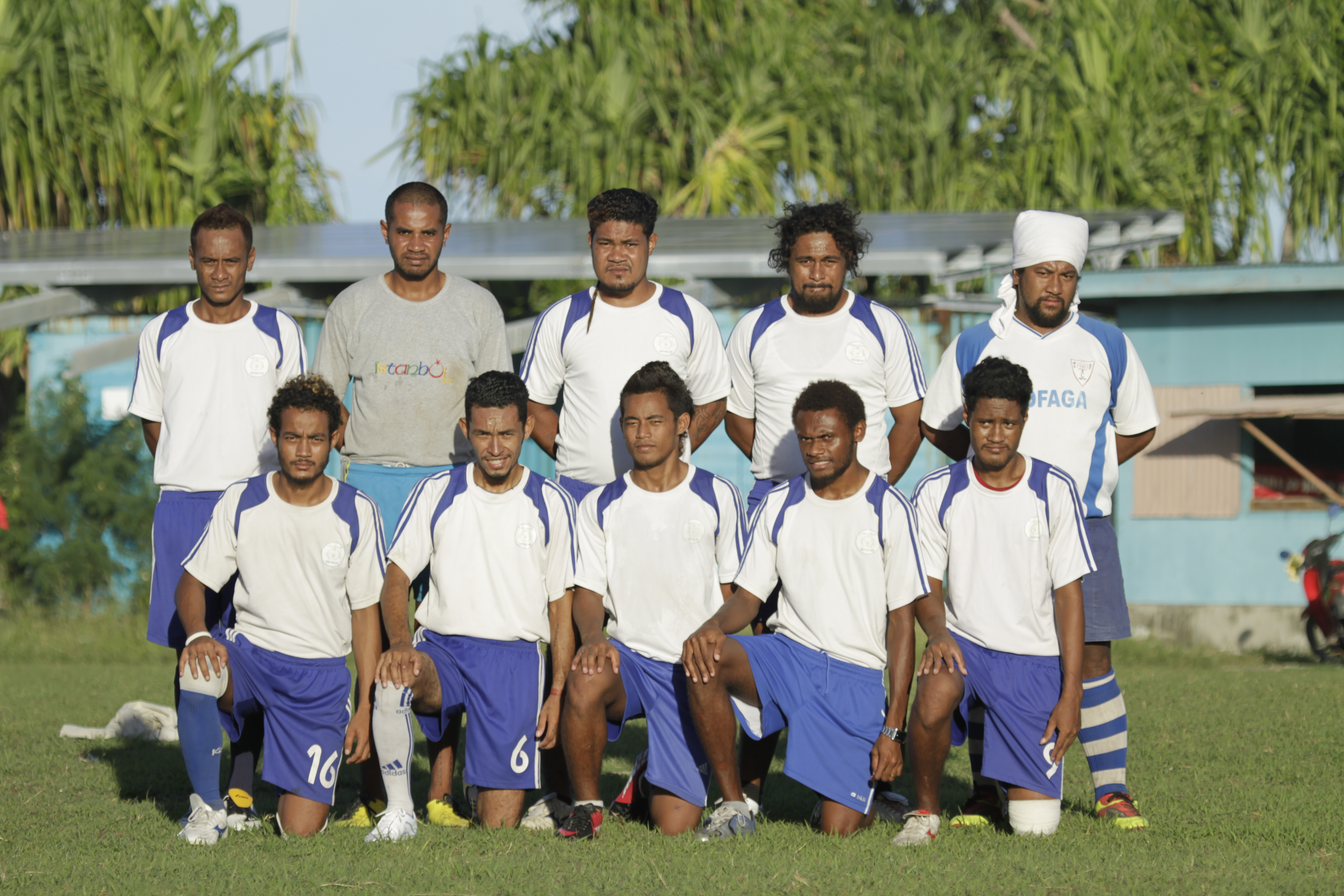 Tofaga_B